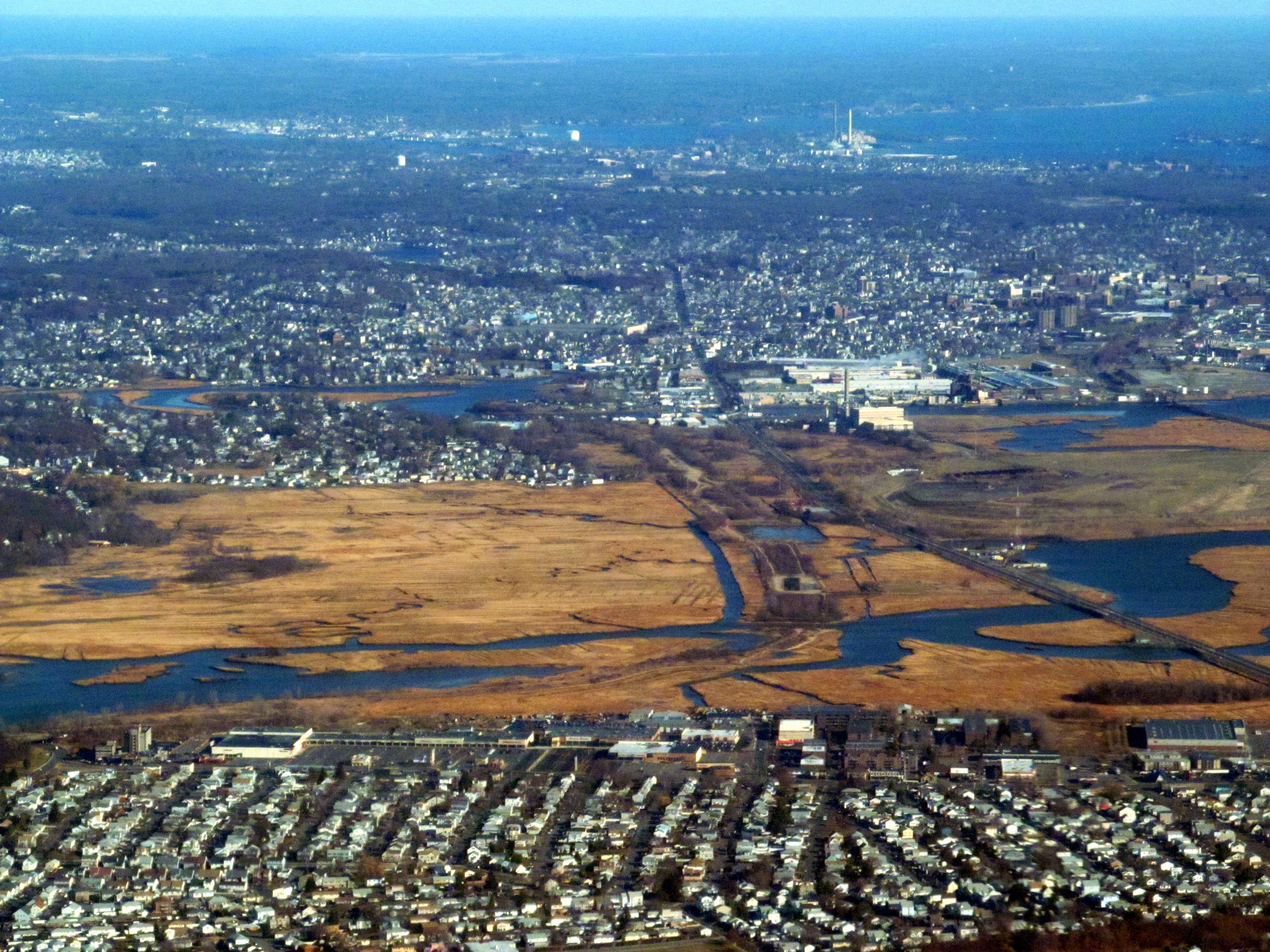 Aerial view of the Saugus Marsh, looking northeast. In the center of the image is the causeway built for the canceled part of the Northeast Expressway. In the foreground is the Northgate Mall; in the background is General Electric's River Works plant.